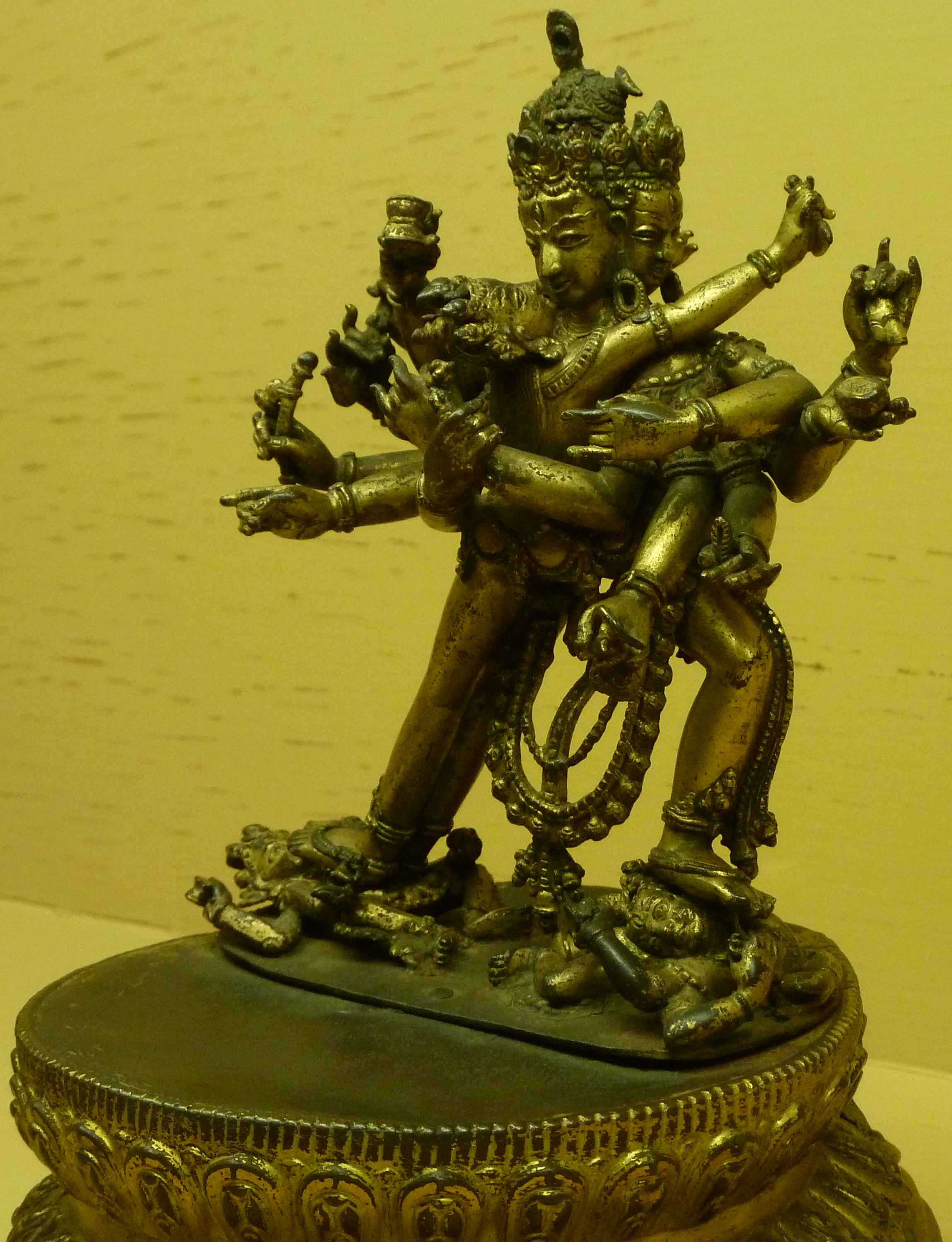 Heruka is one of the nine deities emanating from the Dhyanai Buddha Akshobya. He is one of the most popular deities of the Buddhist pantheon . Here he is shown in physical union with his prajna Vajravarahi. This photo is taken in Prince of Wales Museum in Mumbai